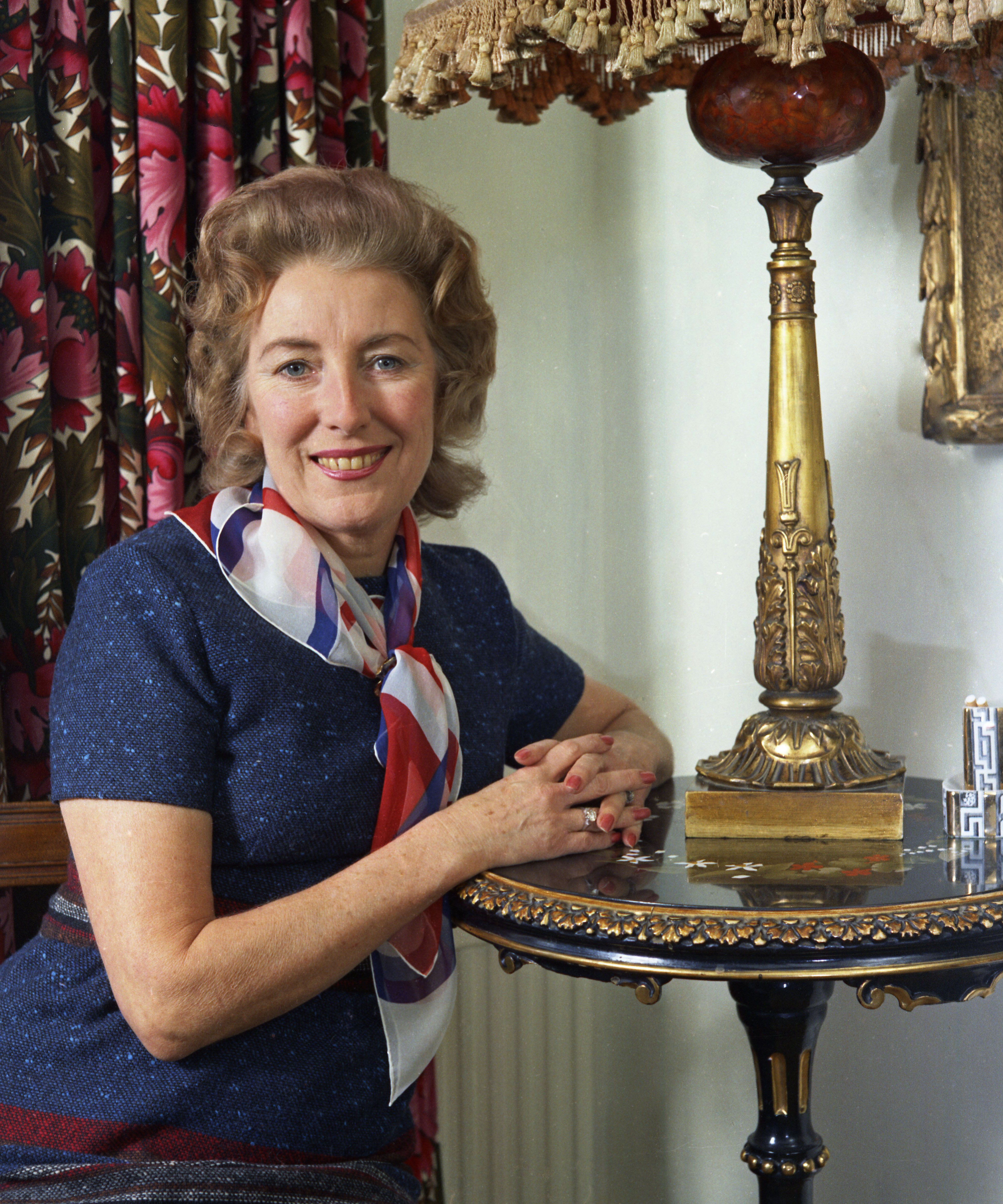 Dame Vera Lynnn Portrait